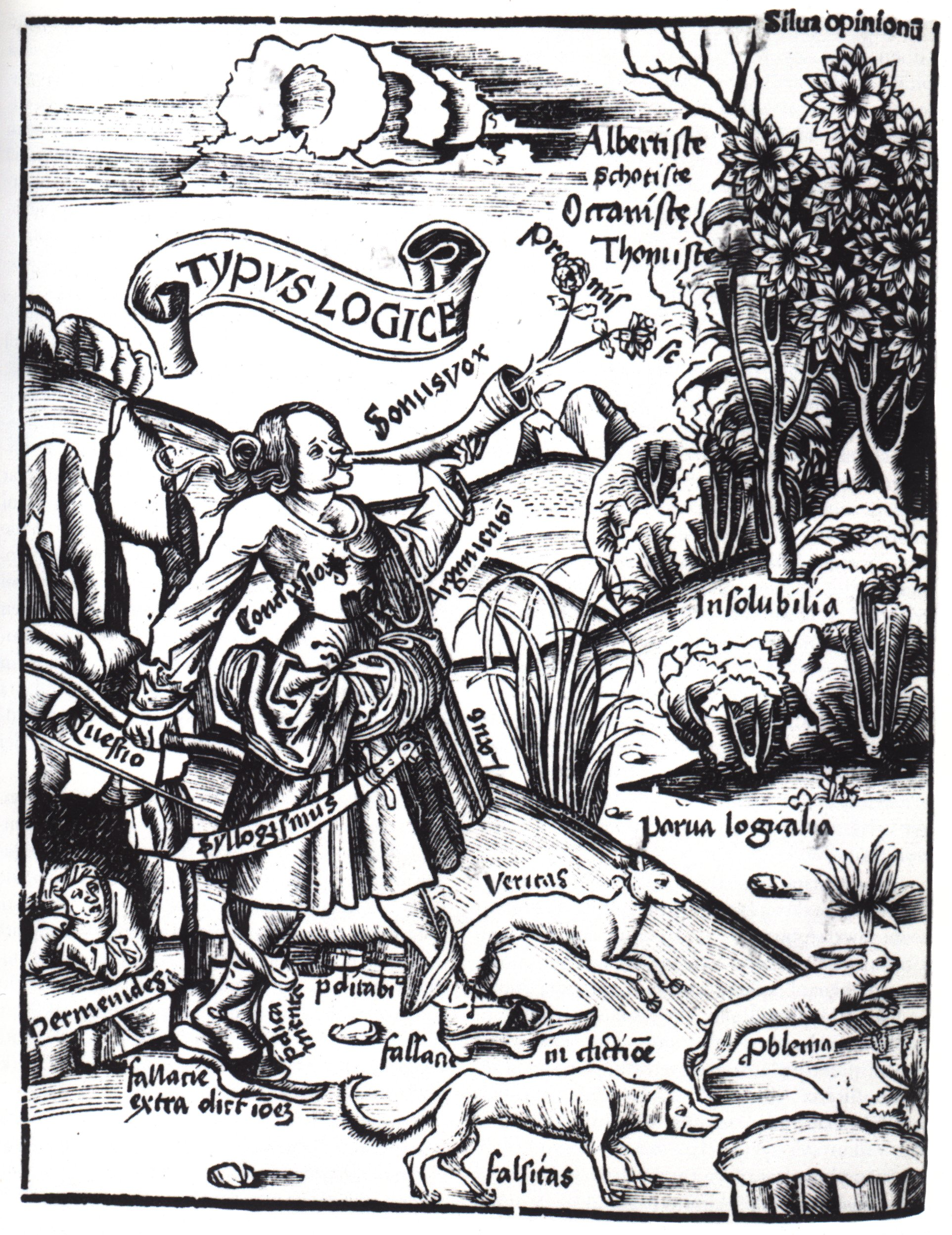 Woodcut from Gregor Reisch, Margarita Philosophica, published 1503/1508?: Typus Logice (“Image/portrait of Logic”), presenting the central methods and problems of the traditional logic.